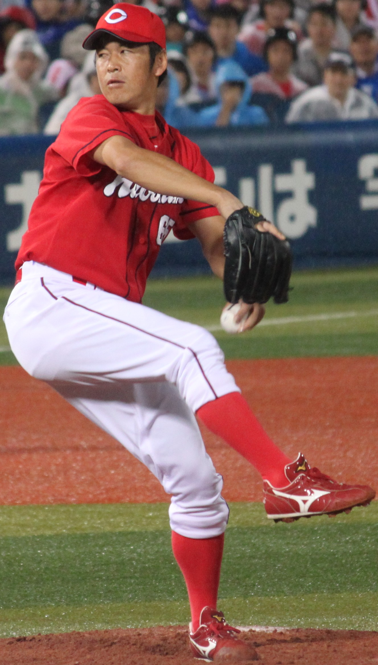 Yuichi Hisamoto, pitcher of the Hiroshima Toyo Carp, at Yokohama Stadium.